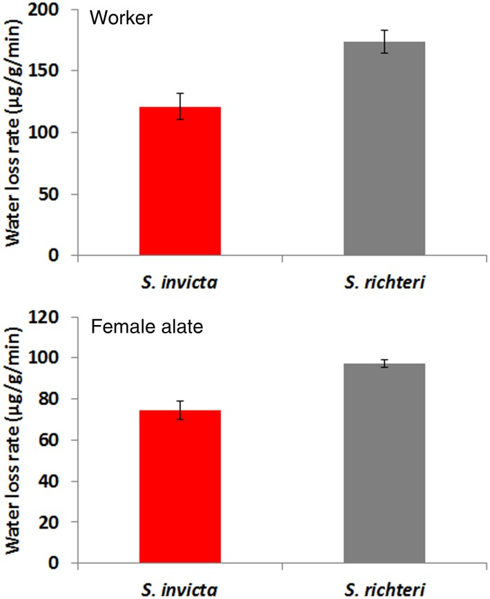 Water loss rates of workers and female alates under experimental desiccation stress (23.5% RH at 23°C). The difference between two species was significant for both workers and female alates.